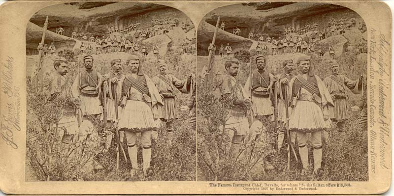 Underwood & Underwood - The famous Insurgent Chief Davelis, for which life the Sultan offers $15,000